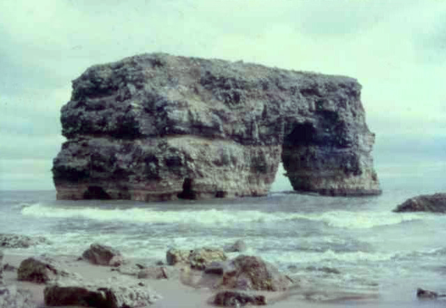 Marsden Rock Bird Sanctuary. I was a novice at bird recognition so won't try to remember the identity of the spots.